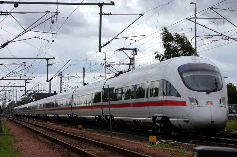 ICE-T passing Delitzsch unterer Bahnhof, travelling from München-HBF to Hamburg-Altona.